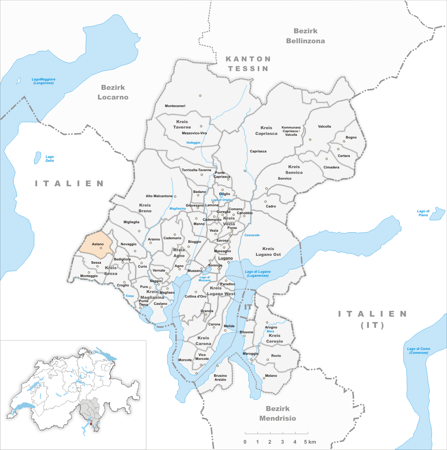 Municipality Astano